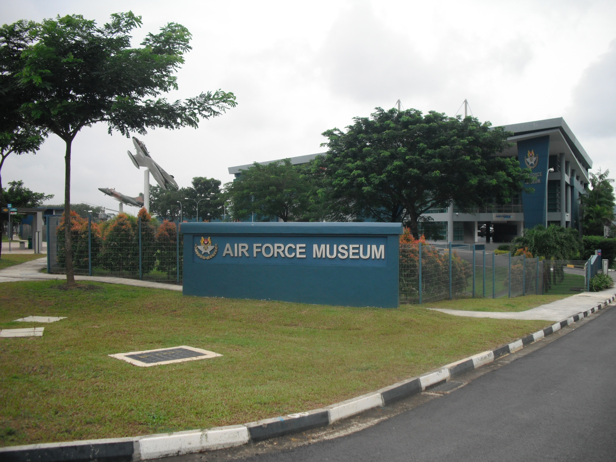 Entrance to Republic of Singapore Air Force museum